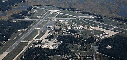 NASA Wallops Flight Facility Main Base